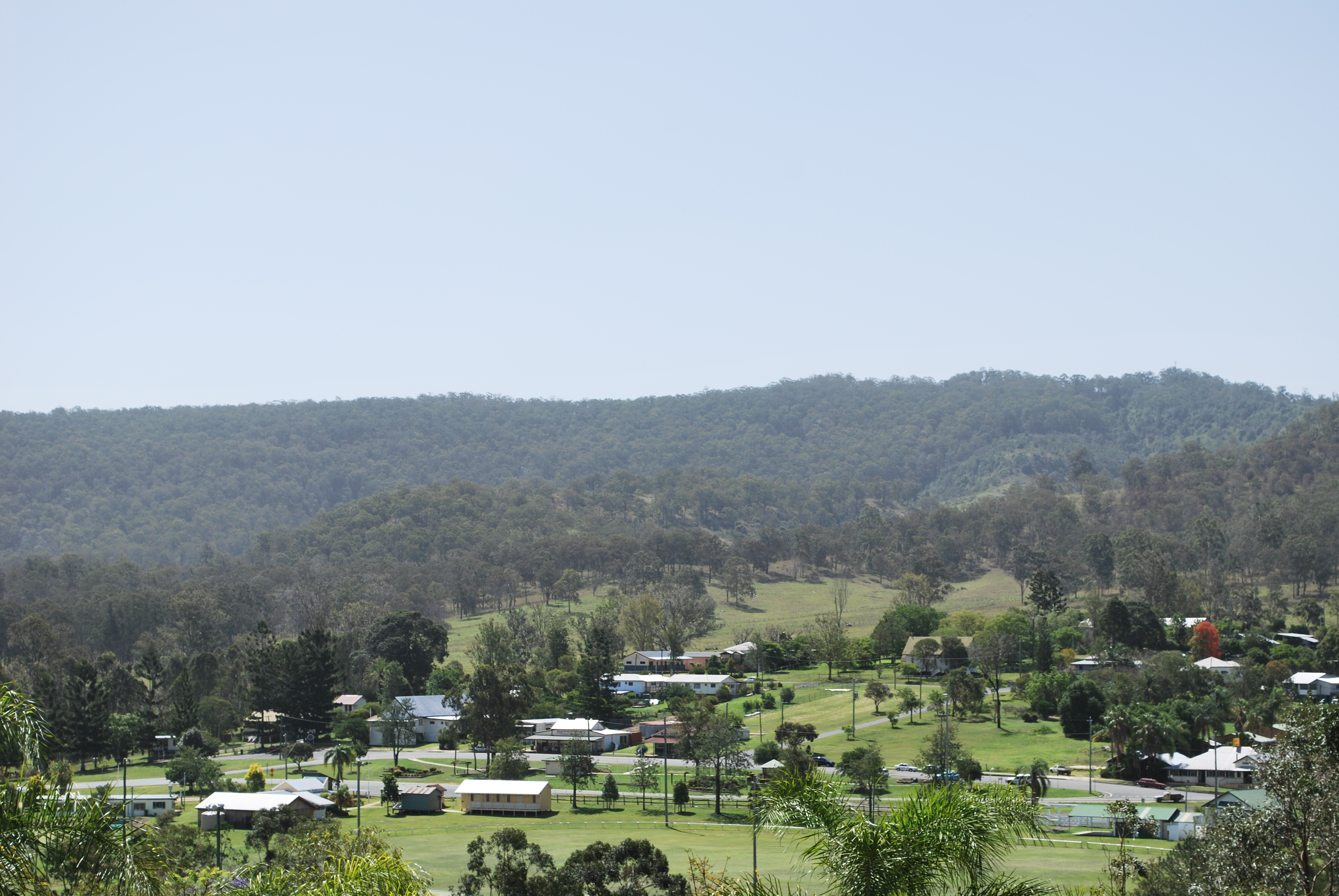 Rathdowney, Queensland, seen from Captain Logan's lookout